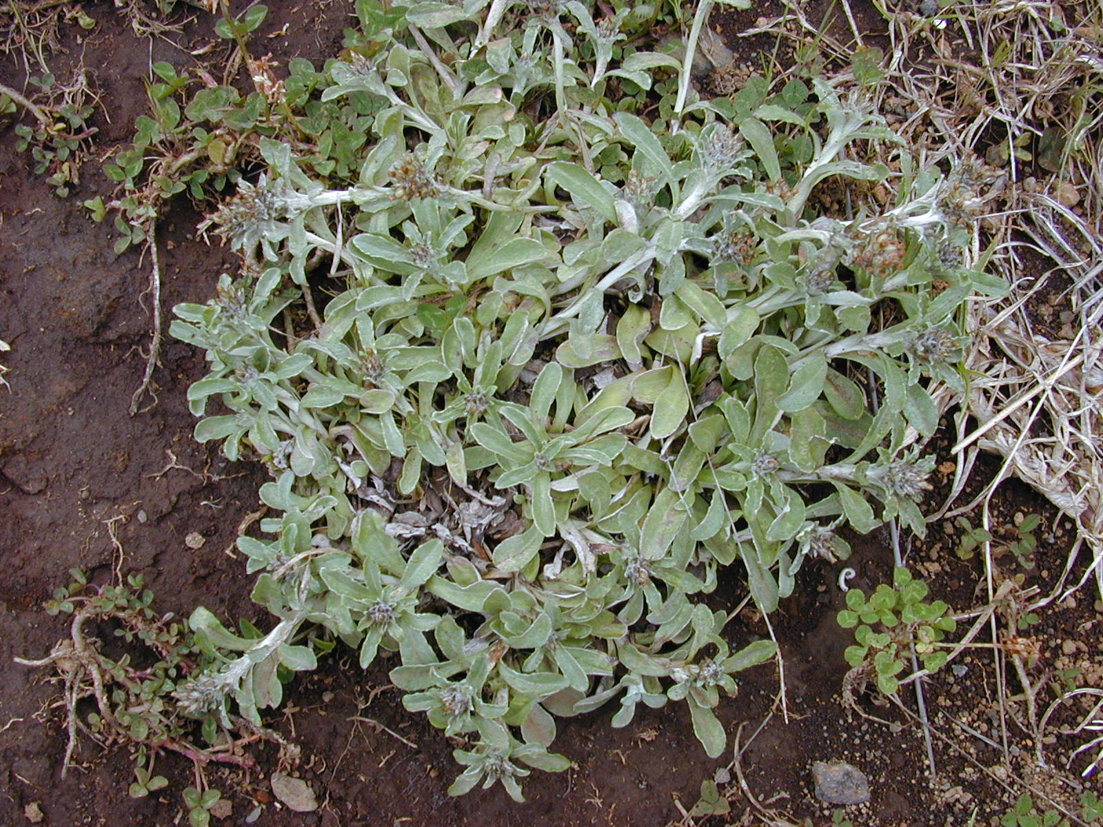 Gnaphalium sp. (habit). Location: Maui, Polipoli